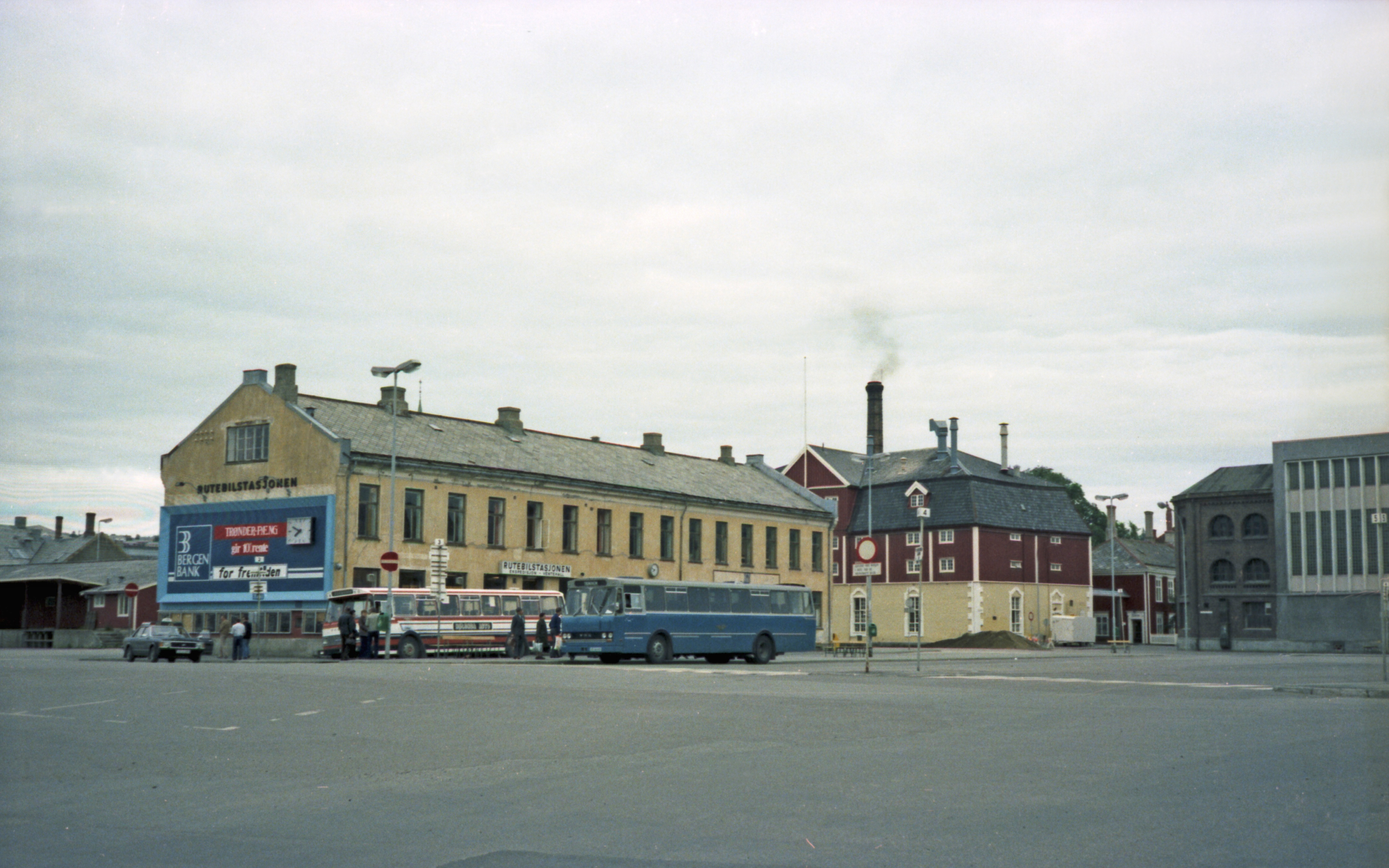 Format: 35 mm farge negativ Film: Kodak Safety Film 5035 Dato / Date: Juli 1979 Fotograf / Photographer: Ukjent Sted / Place: Trondheim Wikipedia: Sukkerhuset Wikipedia: Leüthenhaven LokalhistorieWiki: Kalvskinnet (Trondheim) Google Maps: bit.ly/wKcva9 Flyfoto 1937: bit.ly/xjMqAV (Finn.no) Street View: bit.ly/yPXWSO Eier / Owner Institution: Trondheim byarkiv, The Municipal Archives of Trondheim Arkivreferanse / Archive reference: Tor.H43.P1.F5769, film 33 Merknad: Fra Byantikvarens negativsamling.